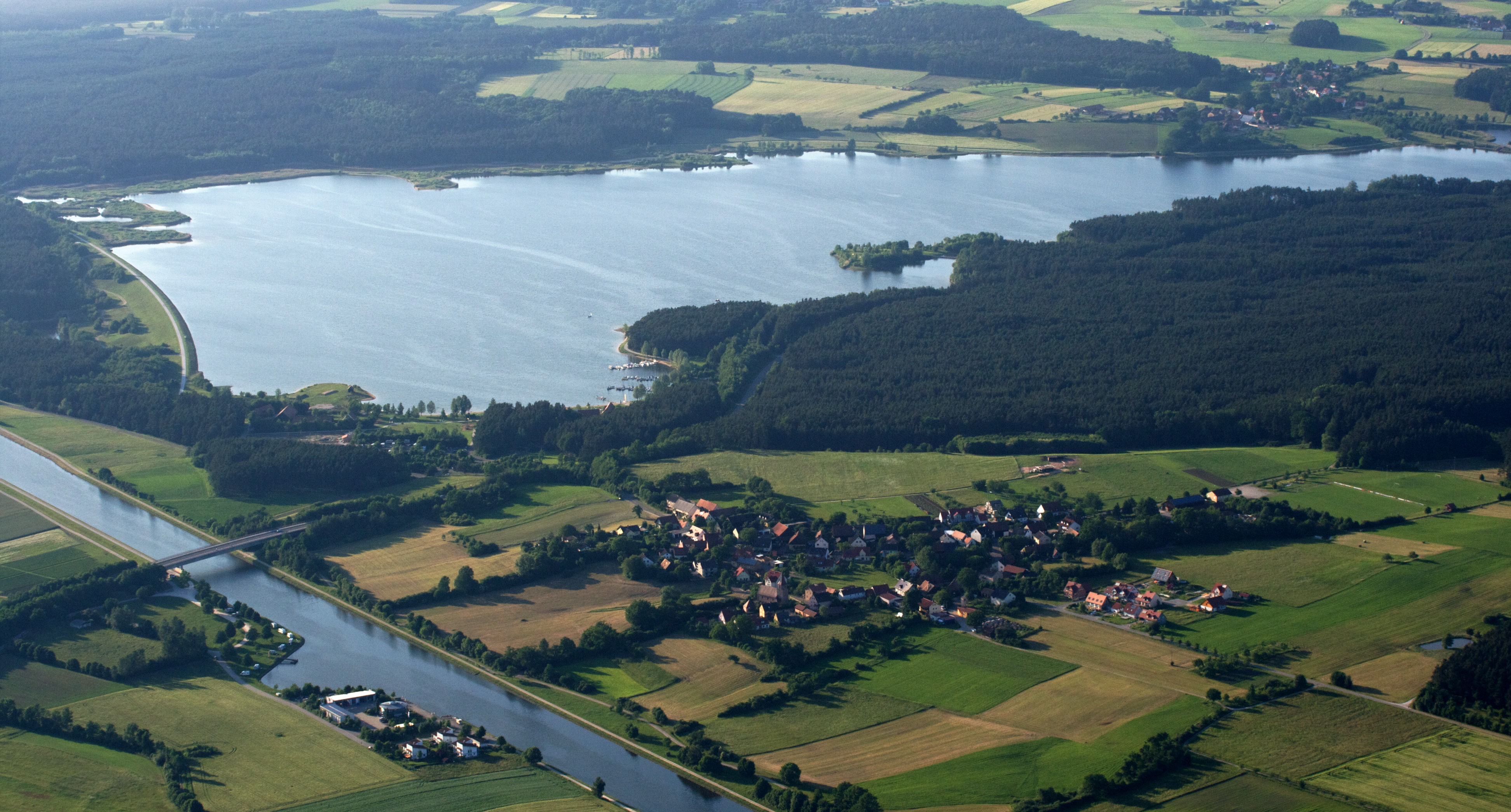 Air photo of Rothsee, Germany, Bavaria, Middle Franconia